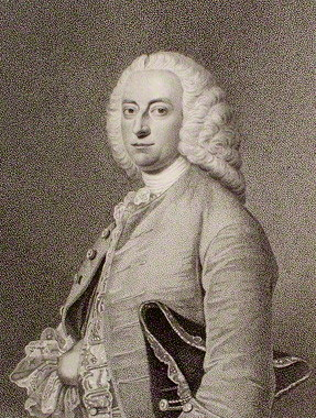 Thomas Villiers, 1st Earl of Clarendon (1709-1786)